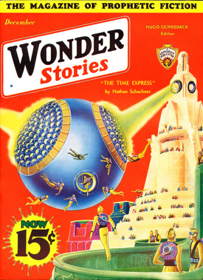 Cover of Wonder Stories, December 1932